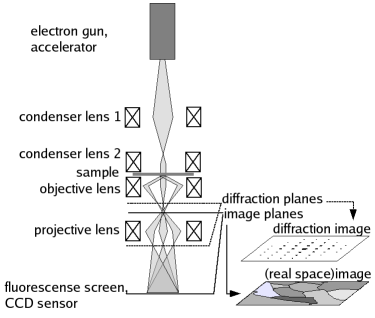 Basic TEM ray diagram Generated July 12th 2006 using OO/The Gimp. Author : Uwe Falke